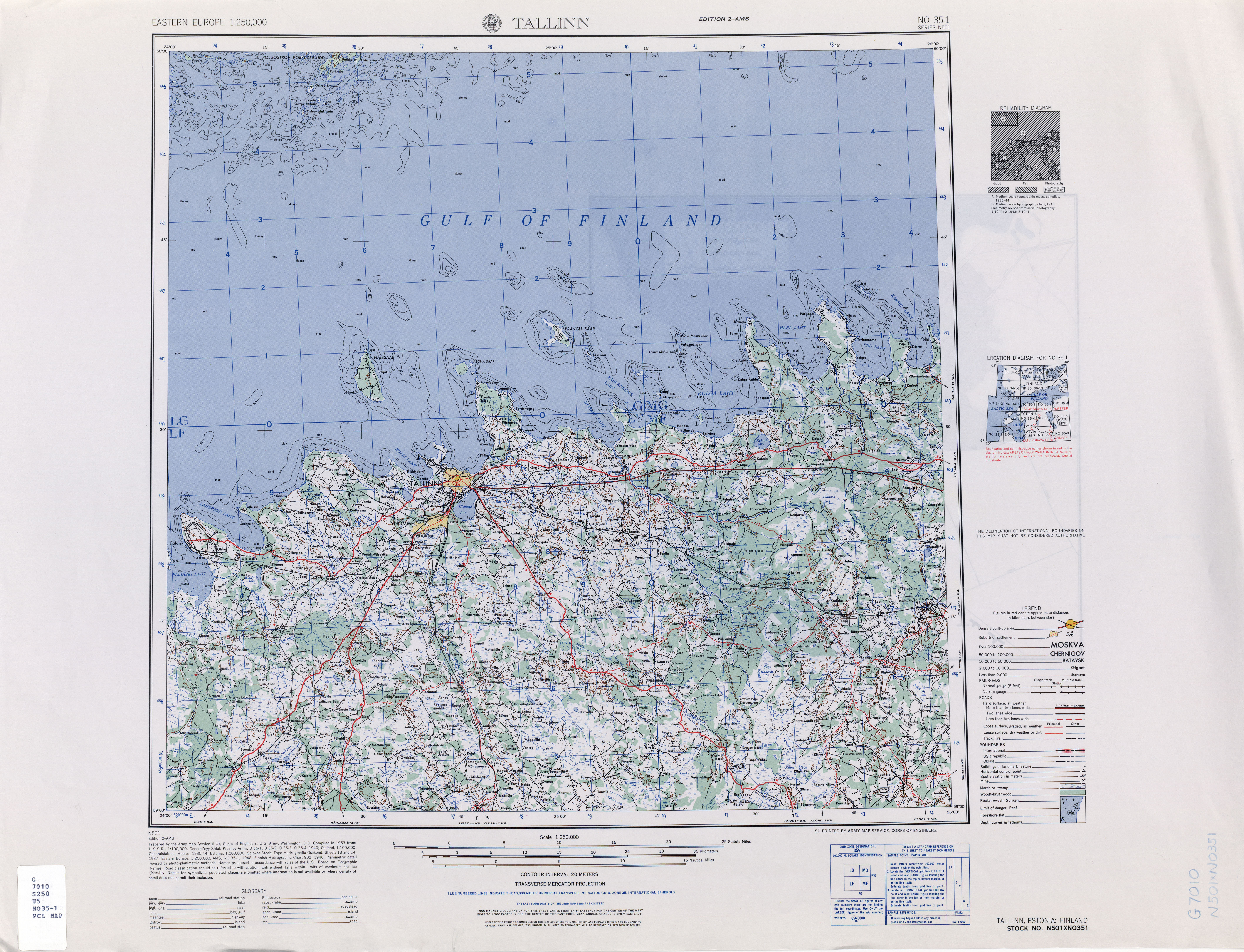 List from Eastern Europe AMS Topographic Maps. Series N501, U.S. Army Map Service, 1954